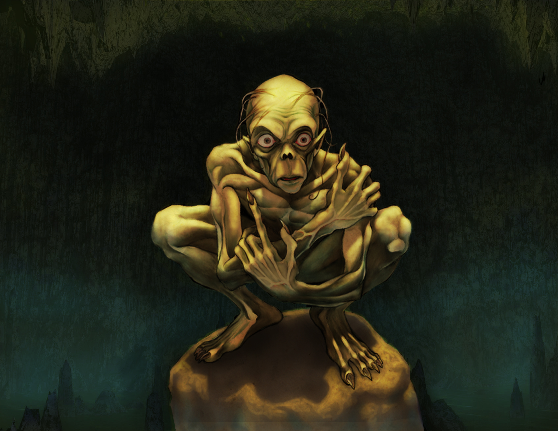 Gollum